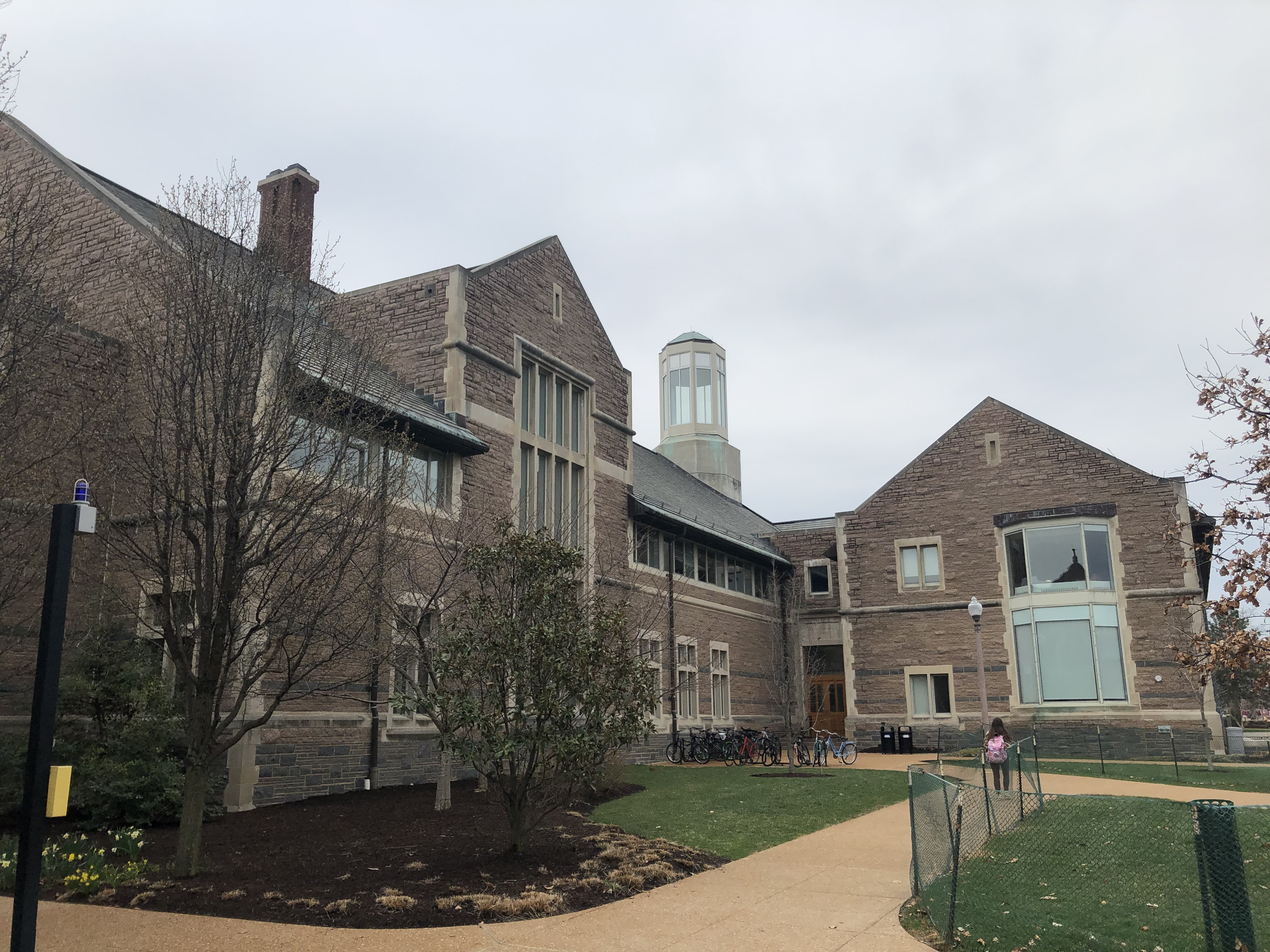 Olin Business School at Washington University in St. Louis